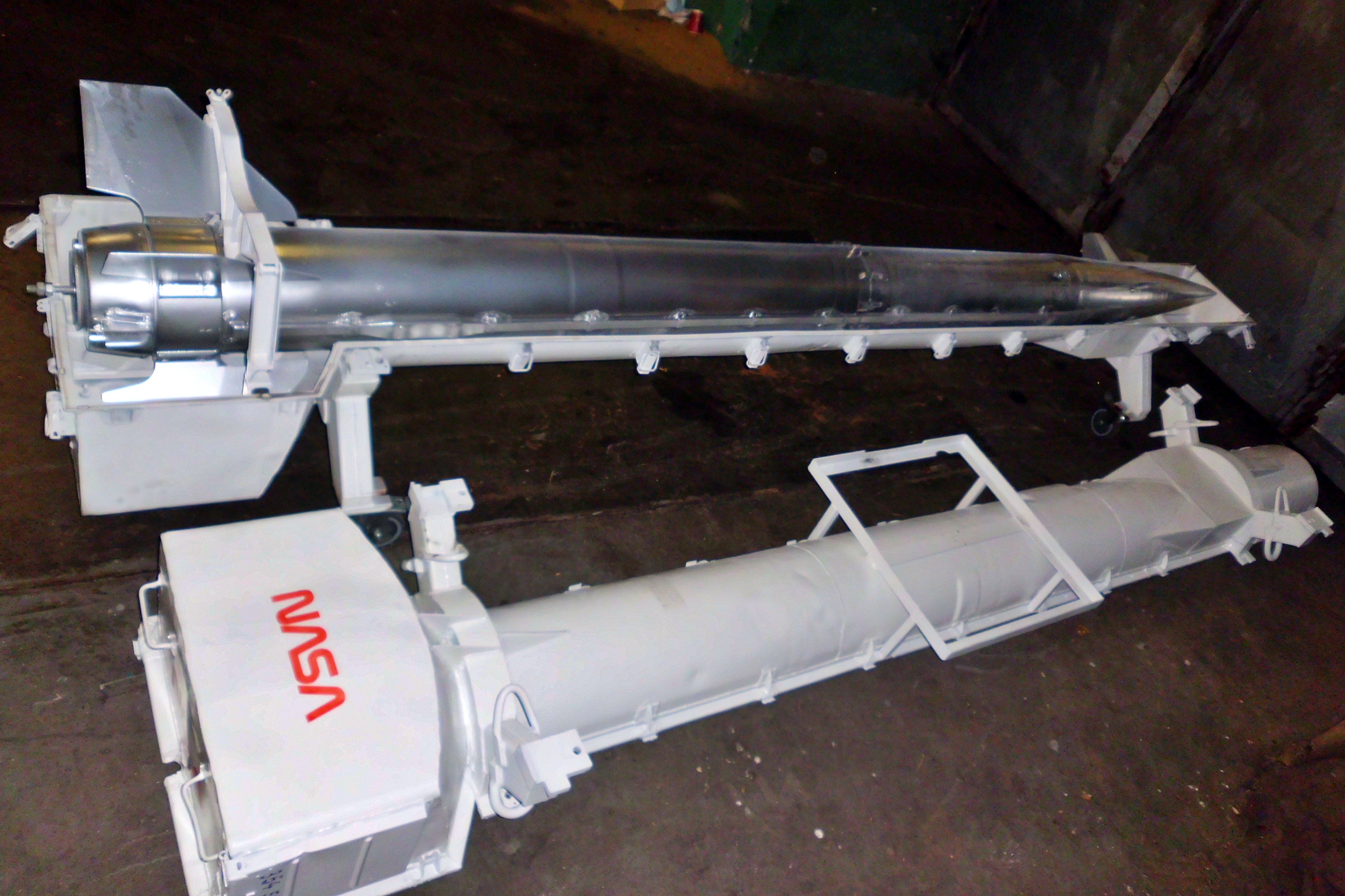 CIAM/NASA Wind Tunnel Demonstrator.